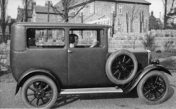 Clyno Motor Car Wolverhampton 1920s